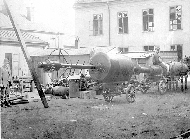 The backyard at company AGA, Maria Prästgårdsgata in Stockholm. A floating lighthouse with equipment by Gustaf Dalén is ready for delivery.